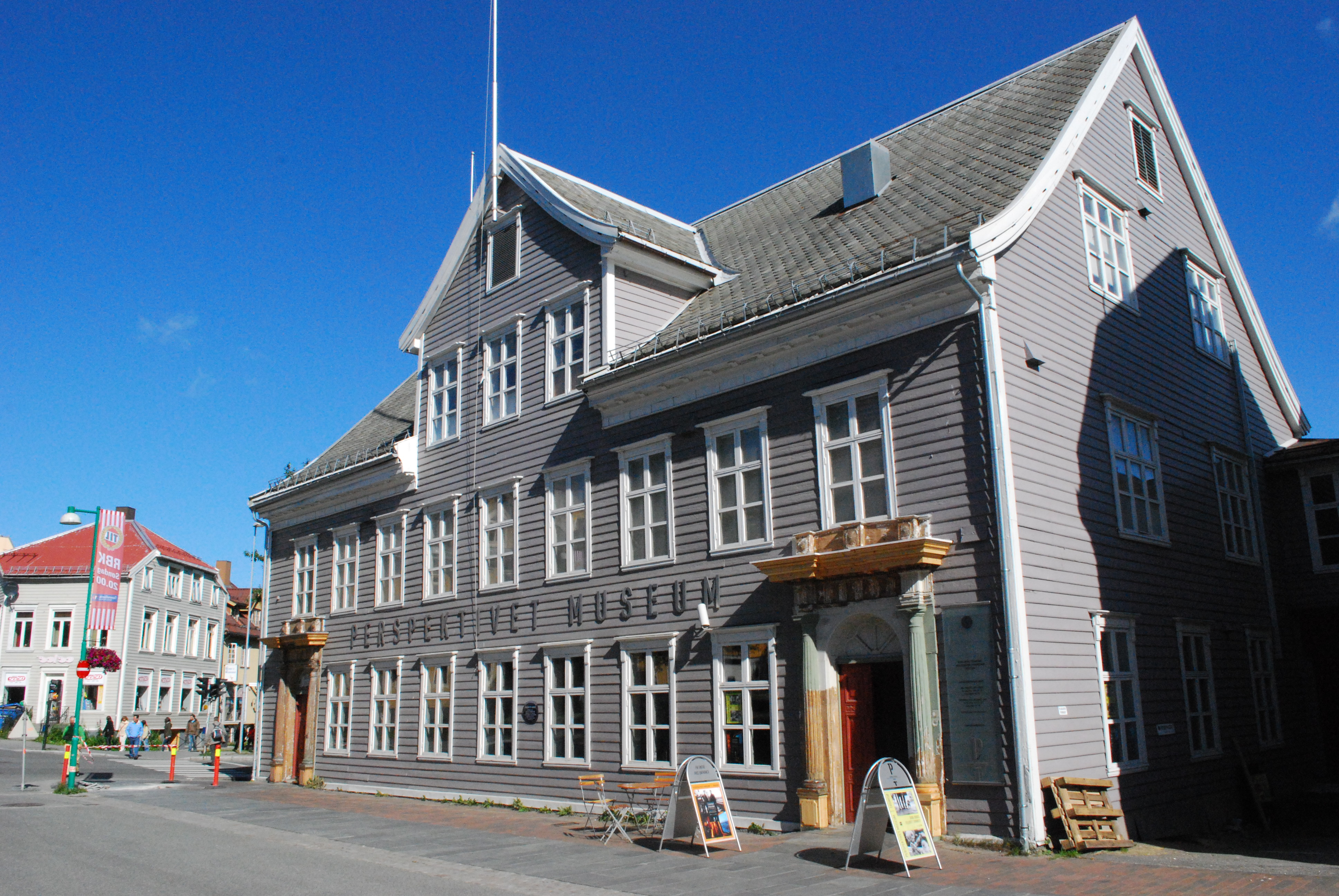 Perspektivet Museum, housed in a rich merchant's residence from 1838.